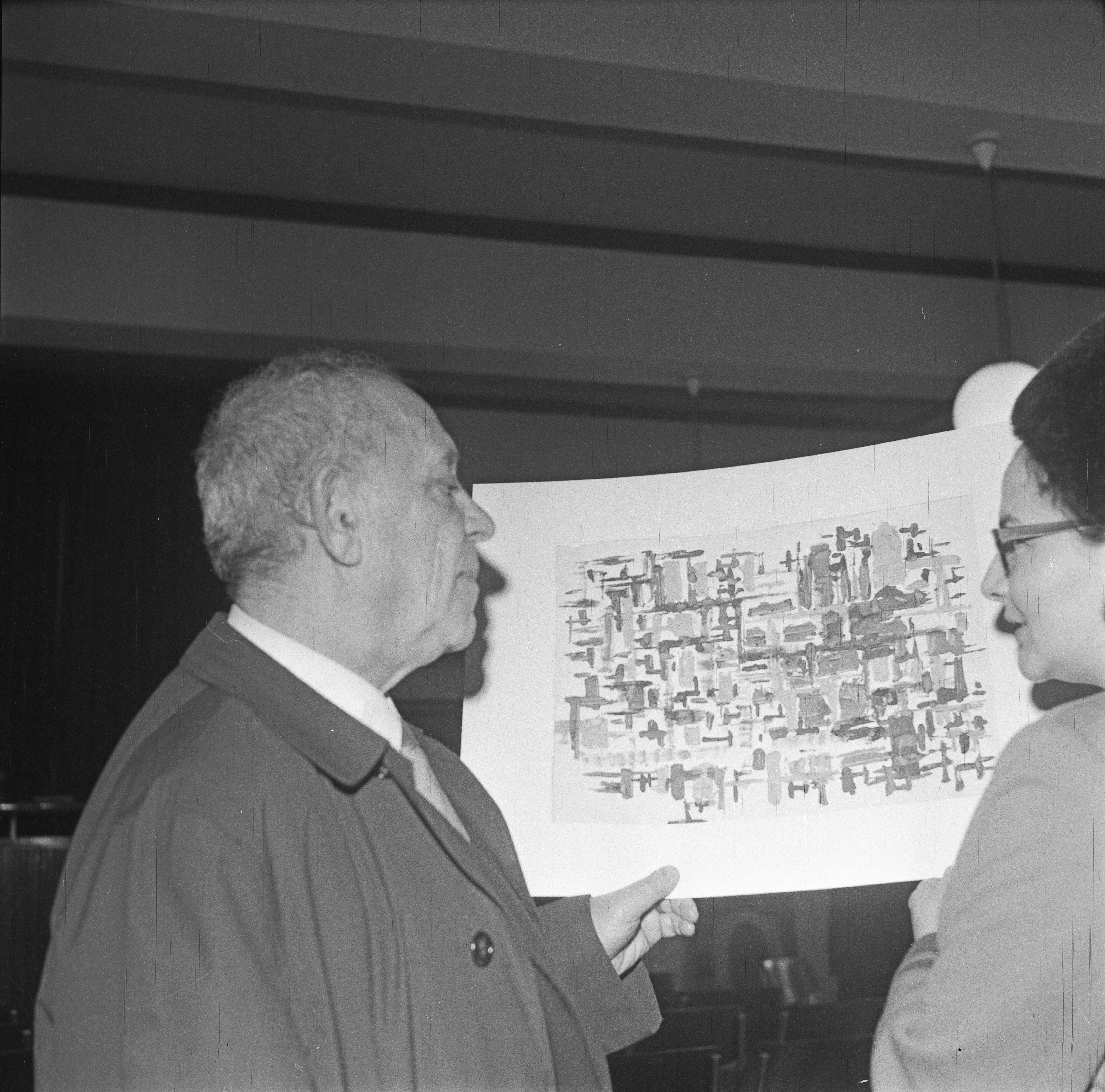 Format: Negativ 120 film Dato / Date: 2 Mars 1967 Fotograf / Photographer: Eirik Sundvor (1902 - 1992) Sted / Place: Bergen Wikipedia: Valery Tarsis (1906 - 1983) Wikipedia: Dissident Eier / Owner Institution: Trondheim byarkiv, The Municipal Archives of Trondheim Arkivreferanse / Archive reference: Tor.H43.Bxx.F14187 Merknad: Forfatter og dissident fra Sovjetunionen Valery Tarsis besøker Bergen 2 Mars 1967.